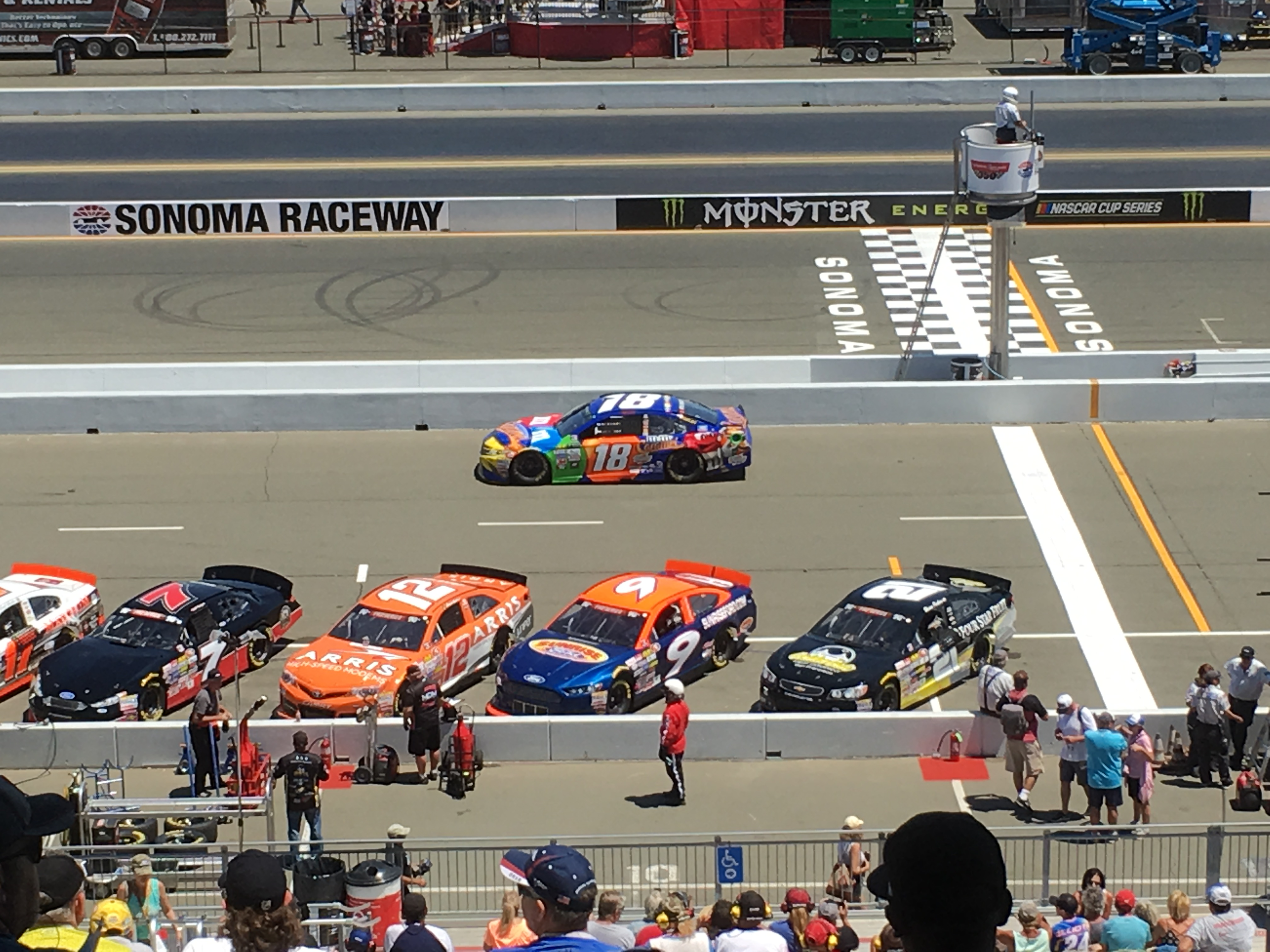 Kyle Busch during qualifying for the 2017 Toyota/Save Mart 350.